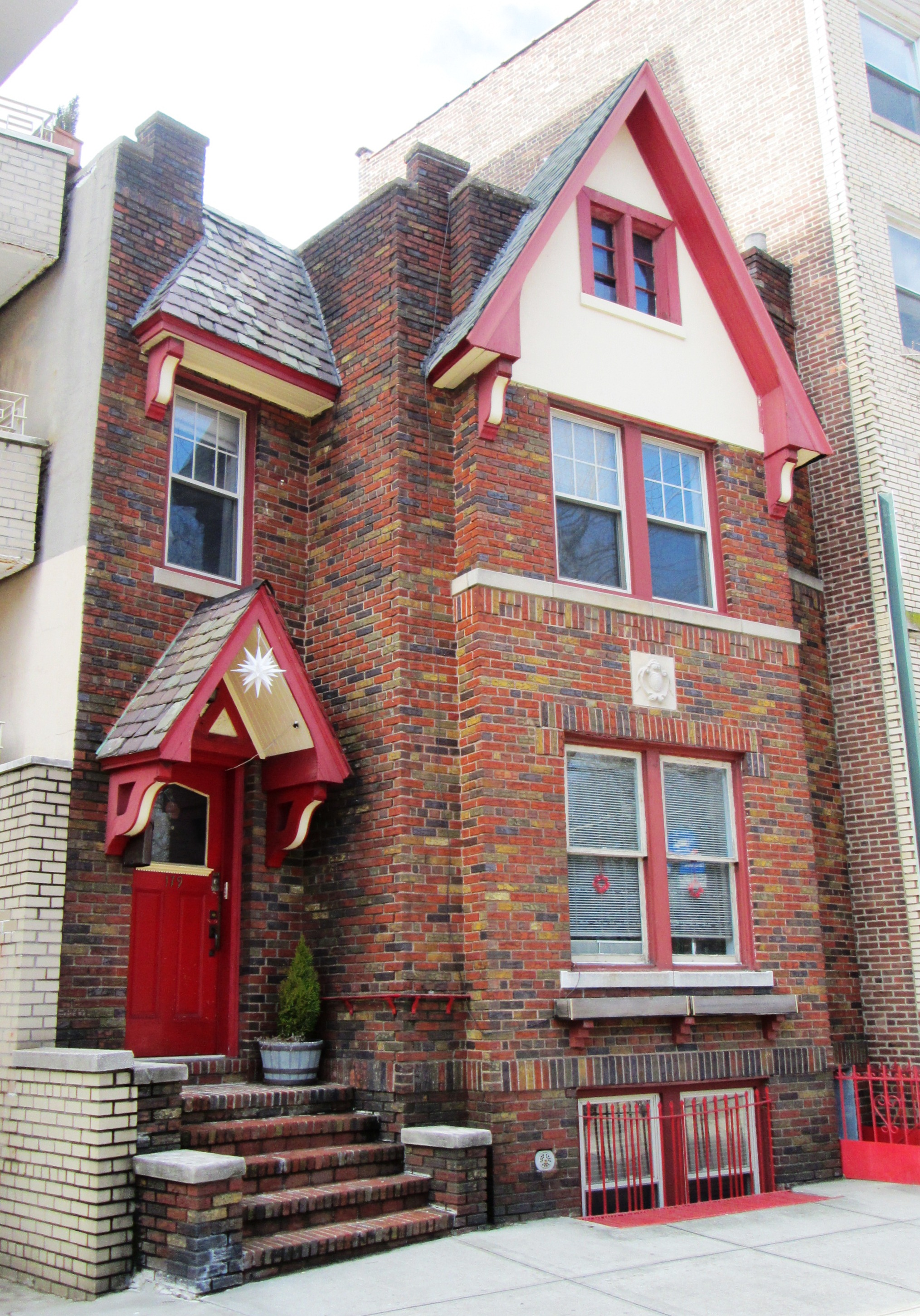 179 Prospect Park SW between Greenwood Avenue and Reeve Place in the Windsor Terrace neighborhood of Brooklyn, New York, was built c.1925. (Source: NYC GIS map)